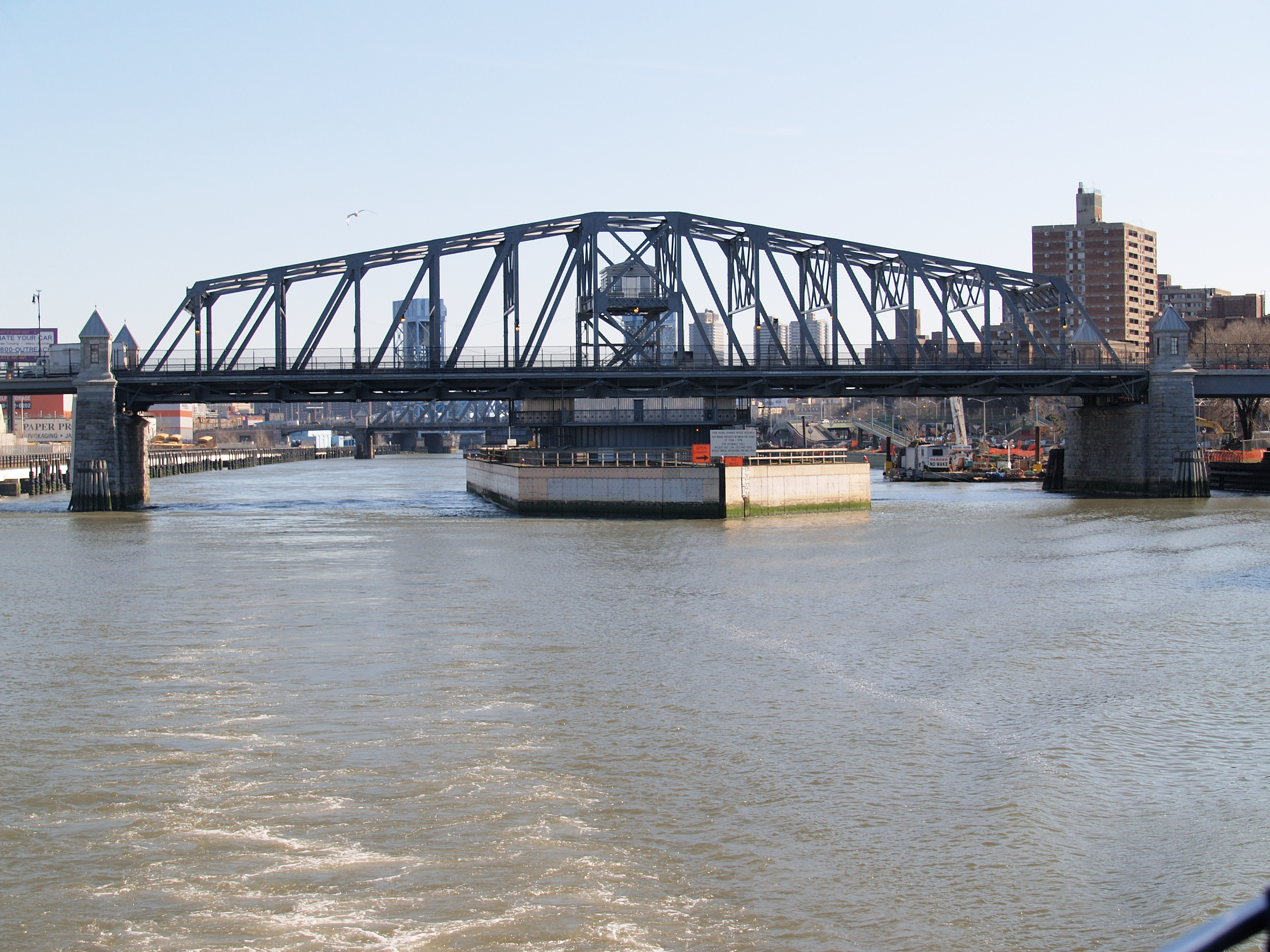 145th Street Bridge, connecting Manhattan and Bronx in New York City, seen from N.